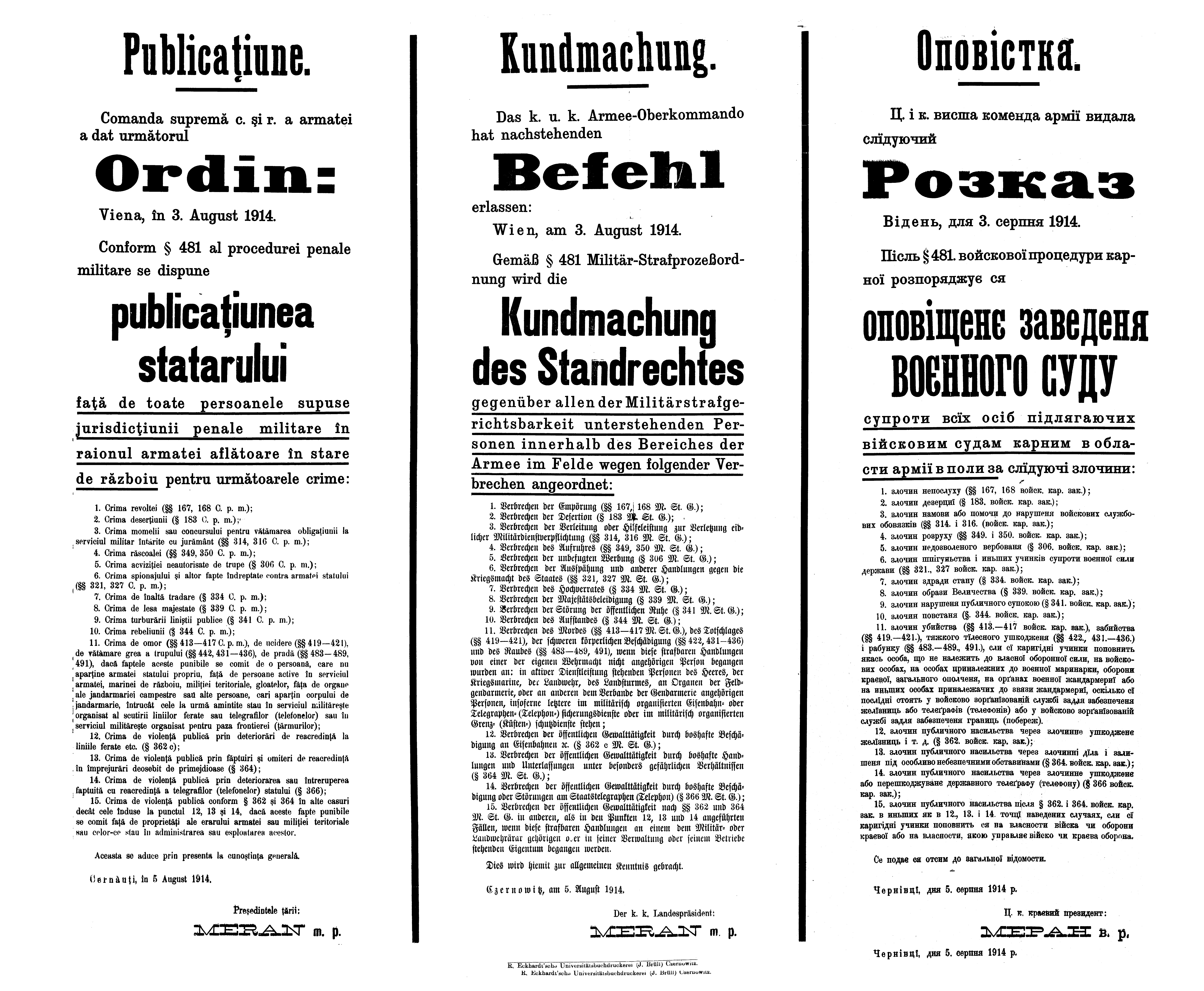 Austrian 1st war poster from Chernivtsi (Austria, now Ukraine)